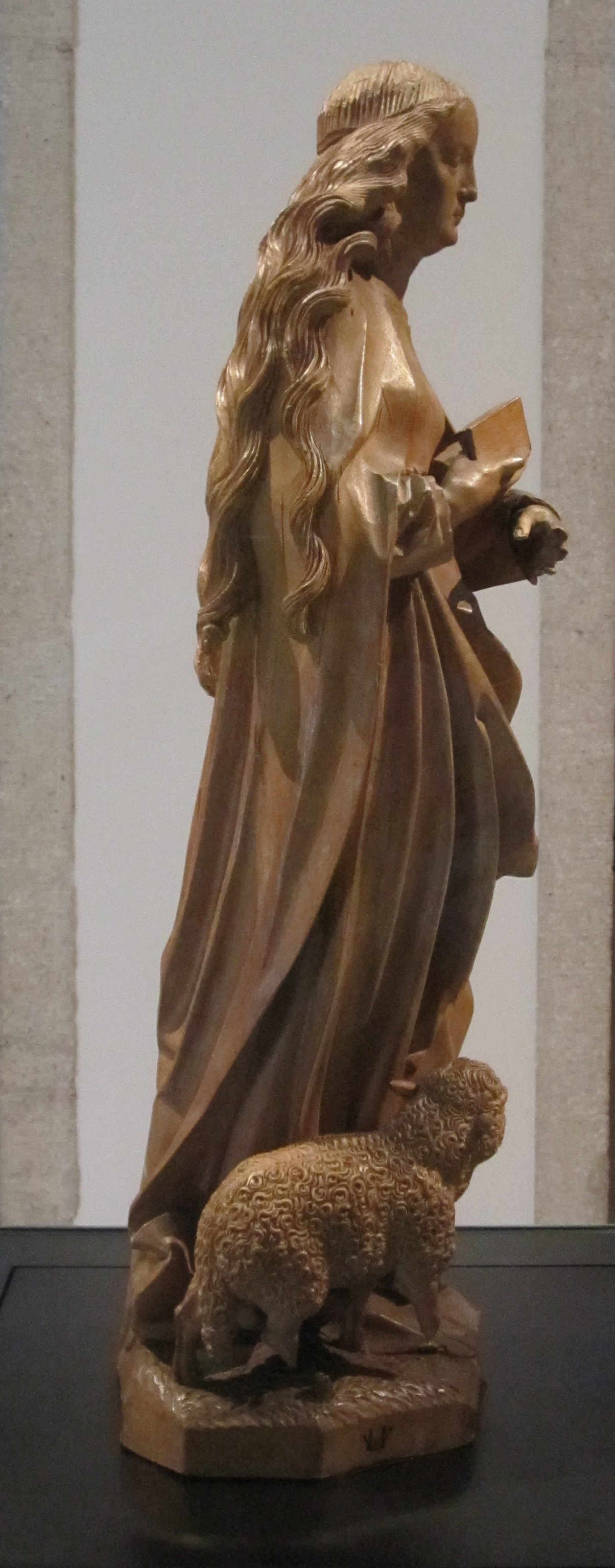 Hl. Agnes - Hans Wydyz ca. 1500 1510